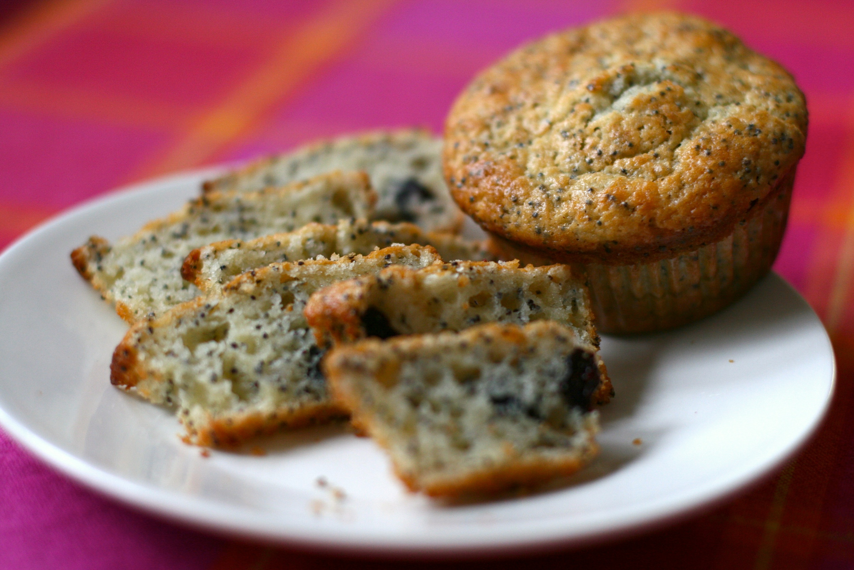 Sliced Cranberry-Mohn Muffins.